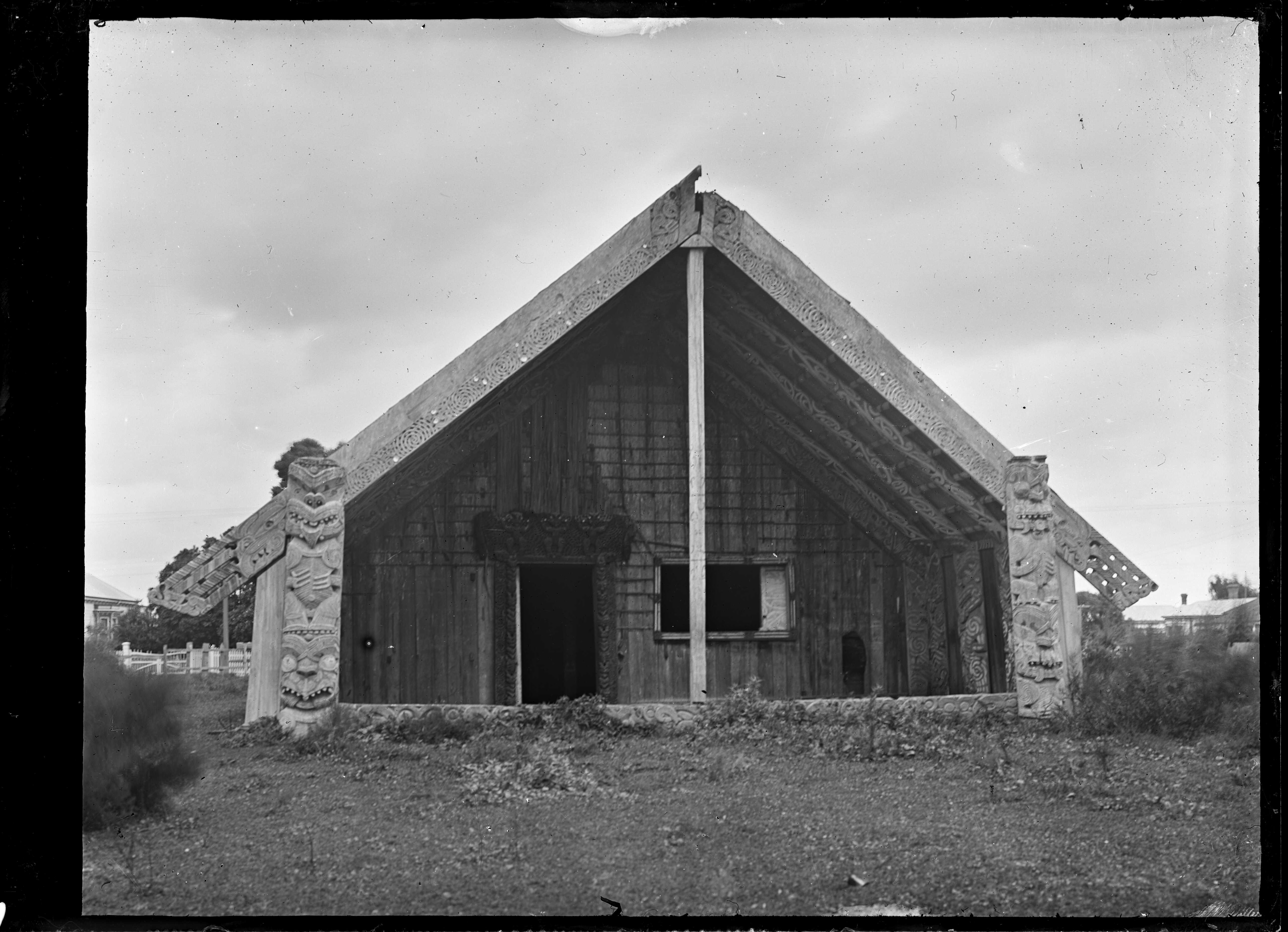 The meeting house at Parawai, Thames, showing the carved panels around the entrance. Photograph taken by Albert Percy Godber in 1917.